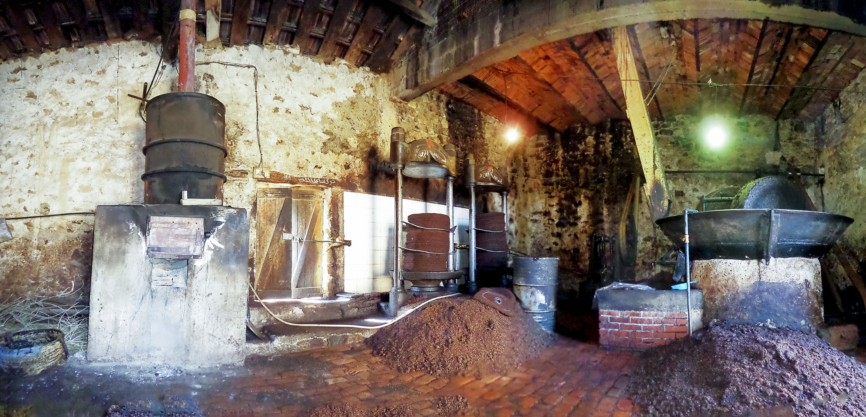 Huilerie traditionnelle à Takorabt en kabylie Commune de Ighil Ali, wilaya de Bejaia, Algerie معصرة تقليدية لزيت الزيتون بمنطقة القبائل، بلدية ايغيل علي، ولاية بجاية، الجزائر